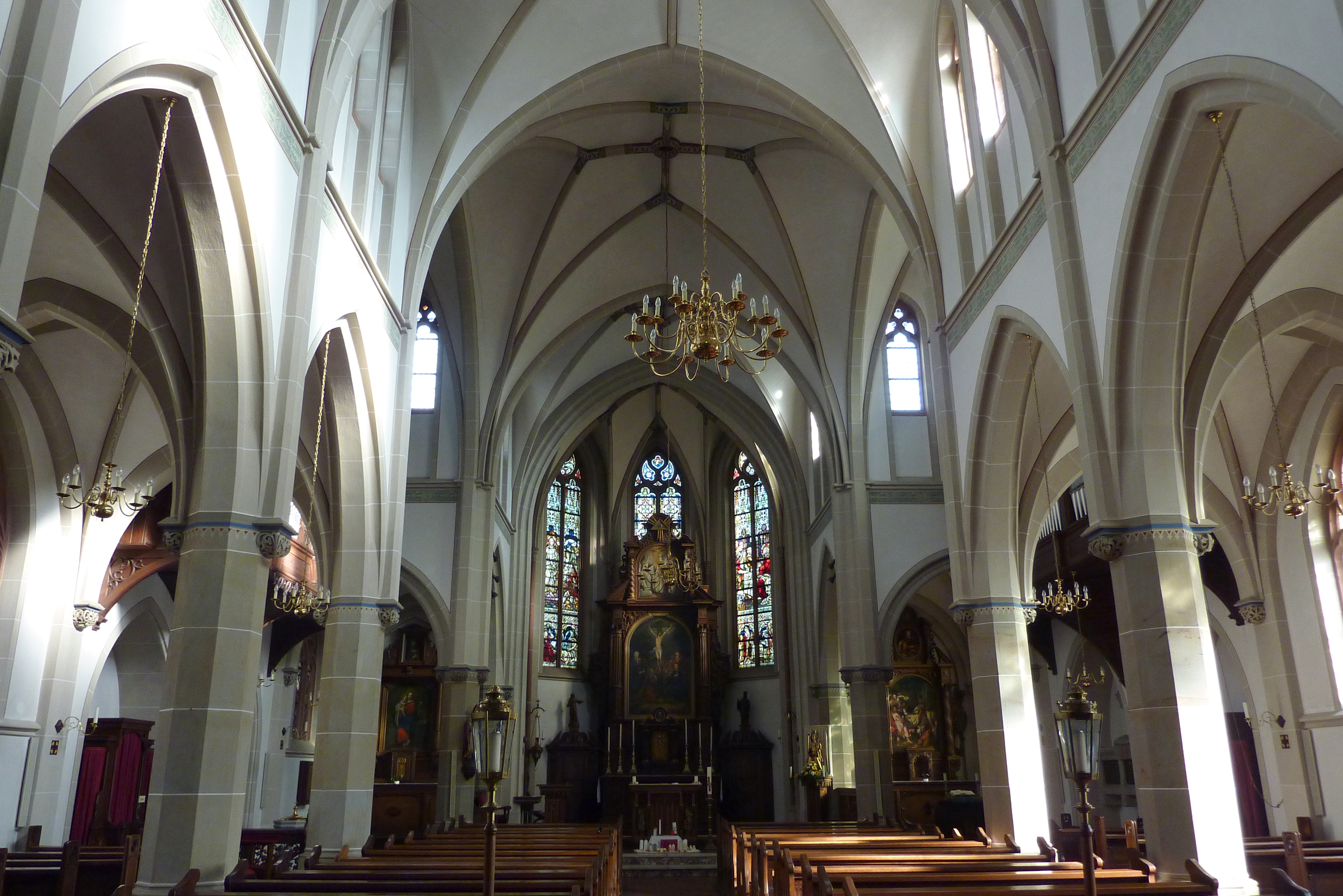 Catholic parish church "Saint Martin" in Flerzheim (Rheinbach), interior with view of the choir of the church